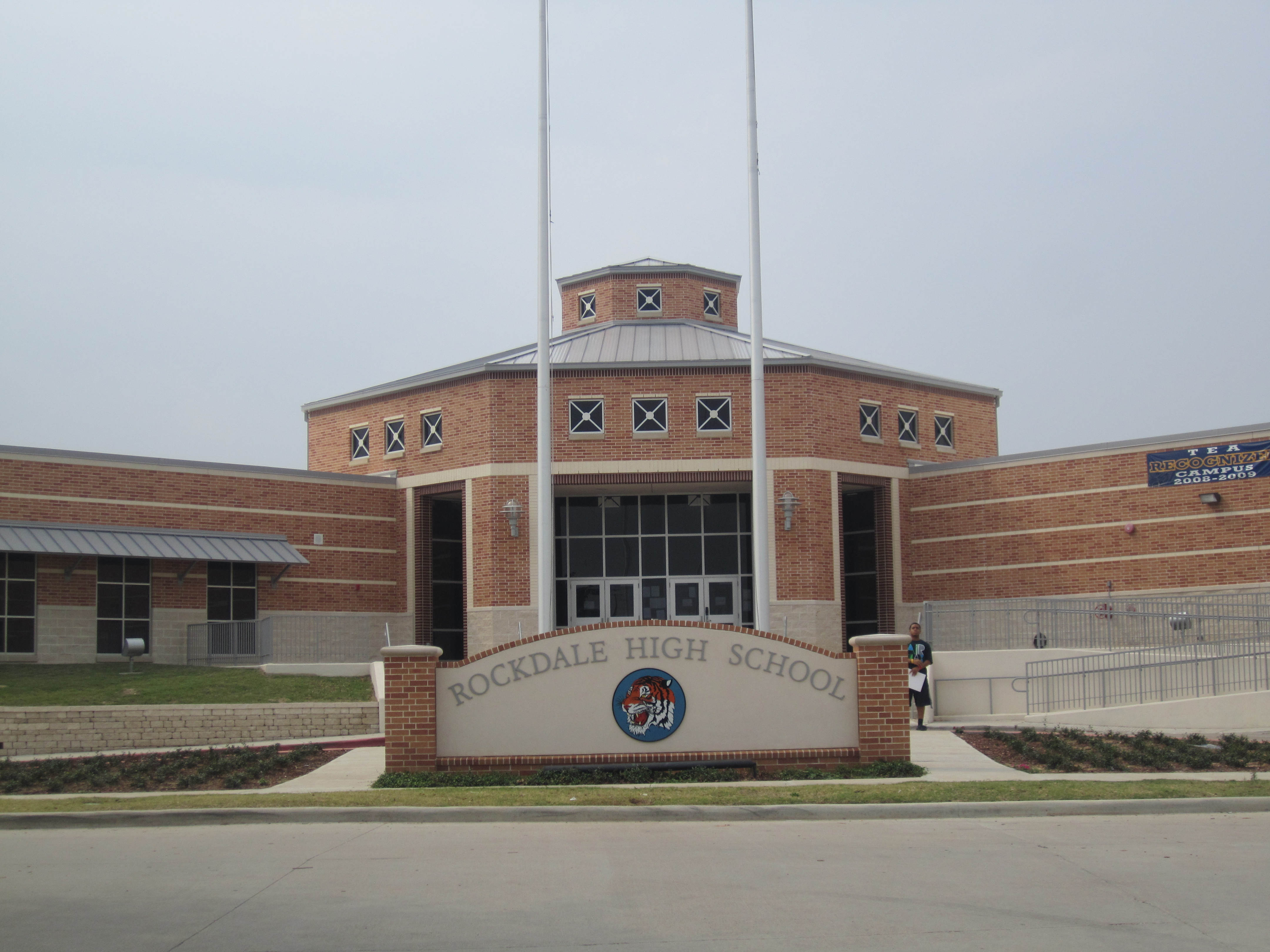 I took photo of Rockdale High School in Rockdale, TX, with Canon camera.